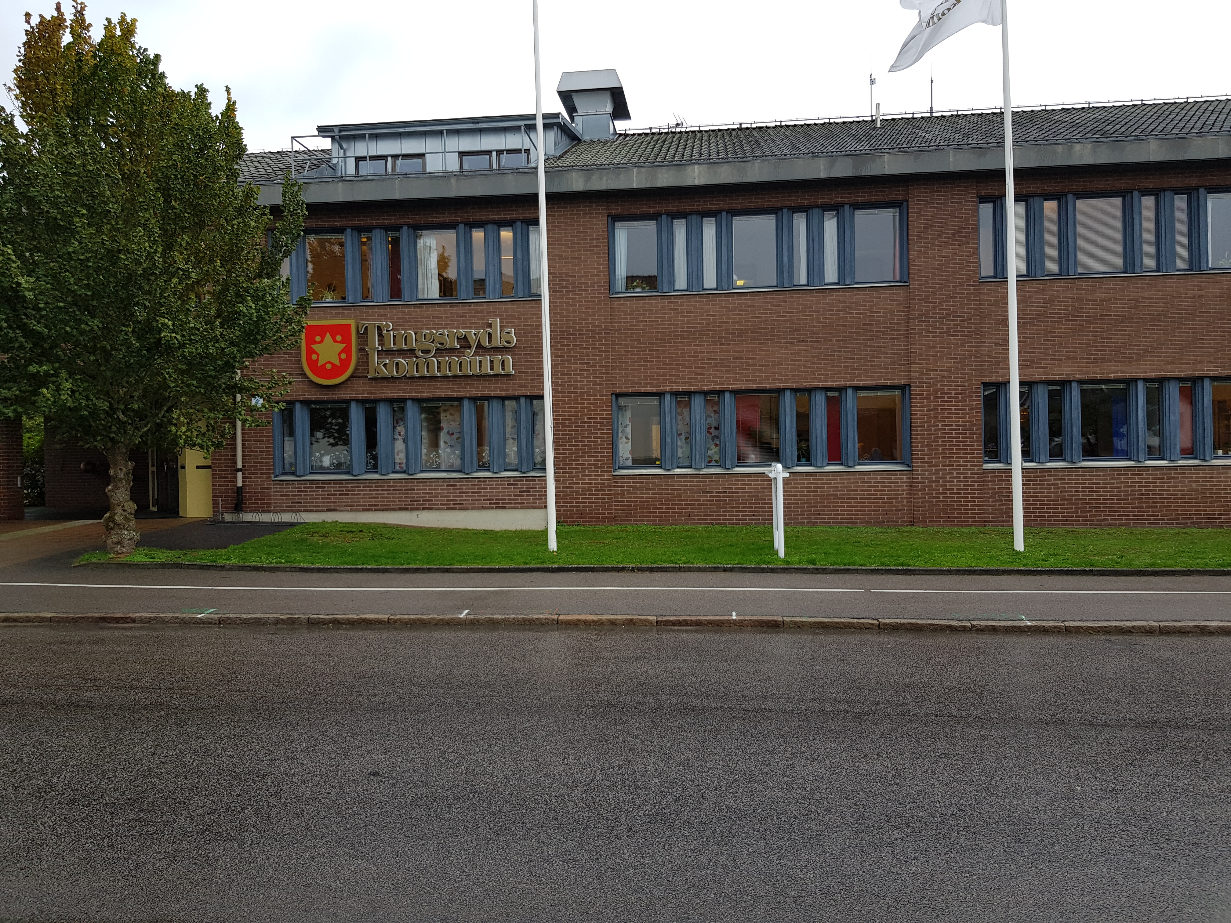 Tingsryds municipal building